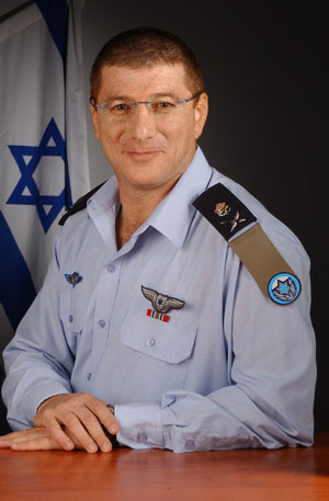 Aluf Eliezer Shkedi of IDF